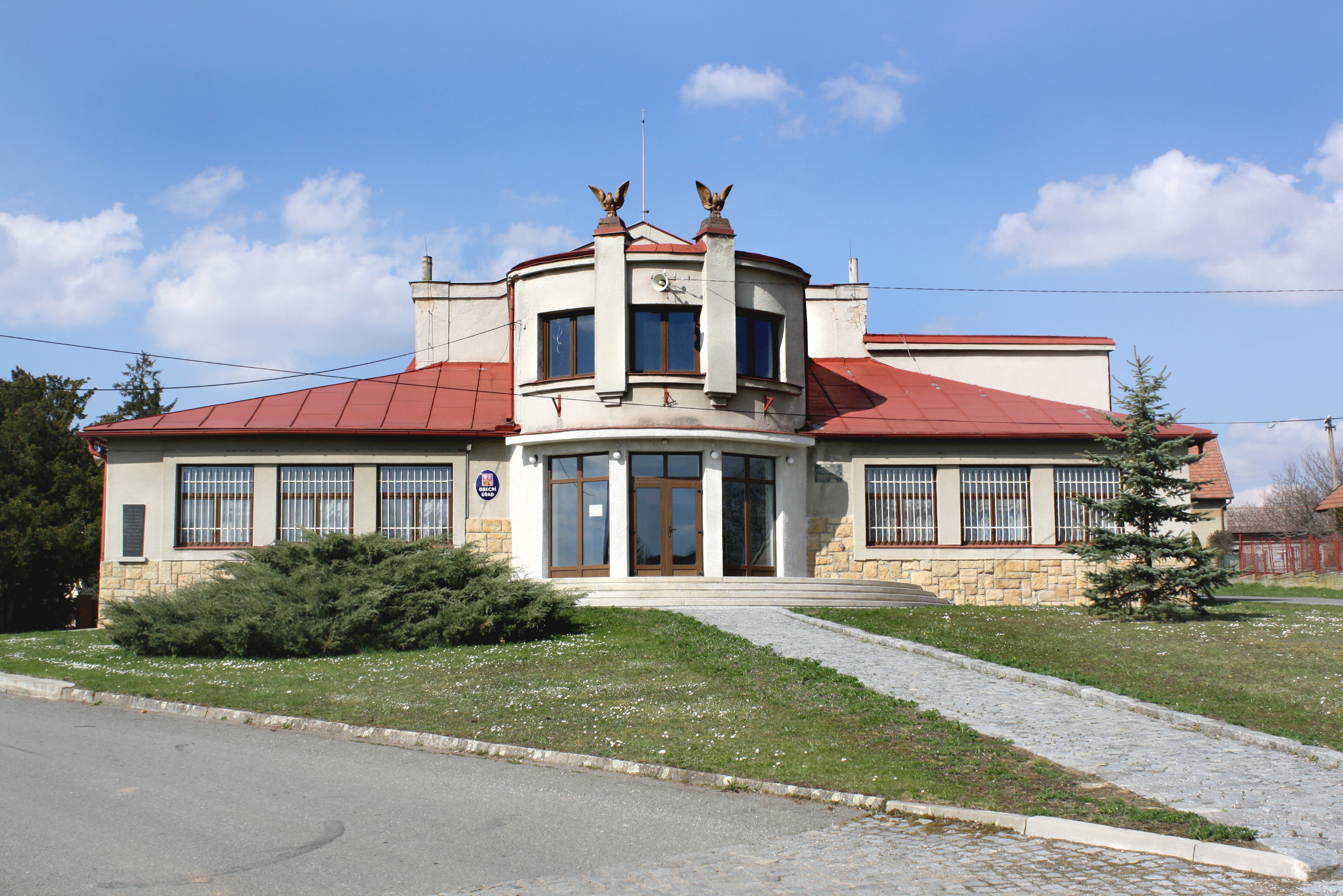 Municipal office in Židovice village, Czech Republic